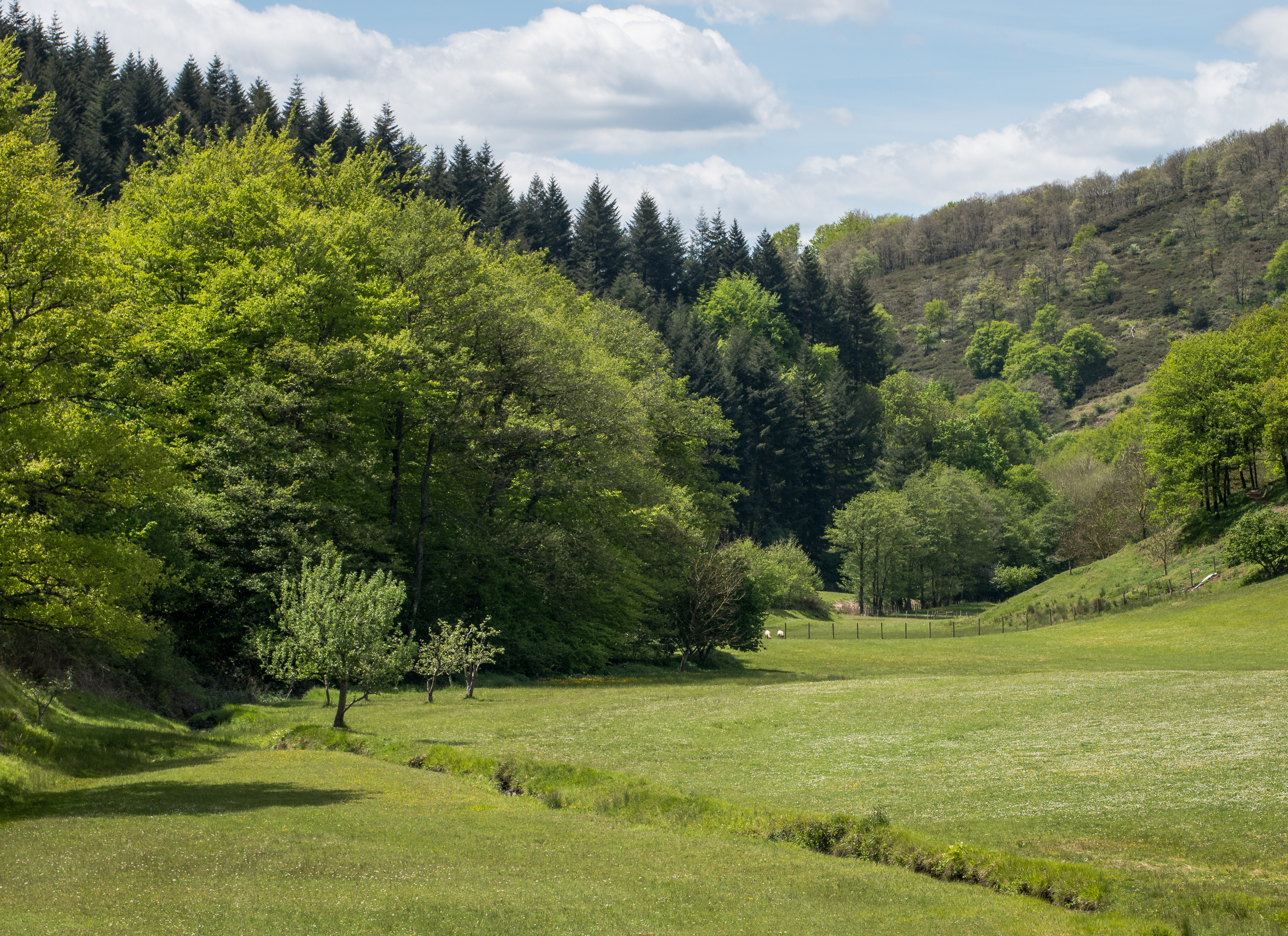 Meadows near the Arlaban mountain pass. Gipuzkoa, Basque Country, Spain